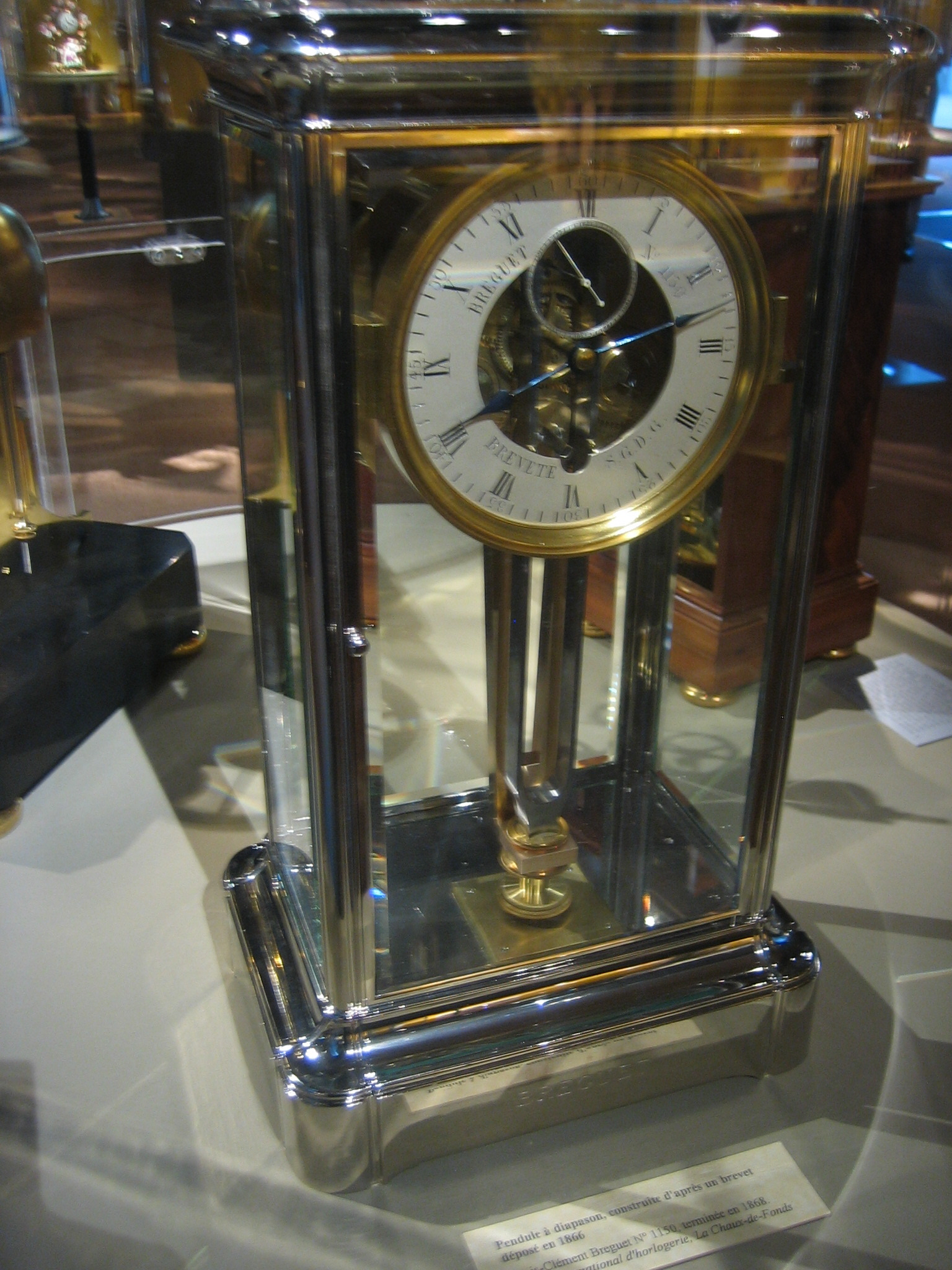 In 1866 the house of Breguet patented a tuning fork clock (Brevet d' Invention No. 73414, le 18 Decembre 1866, depot fait par Luois Clement Breguet ) This an image of one of the few clocks ever made based on the patent, it carried the Breguet number 1150 and a date of 1868. The clock is in the MIH Museum in Le Locle.